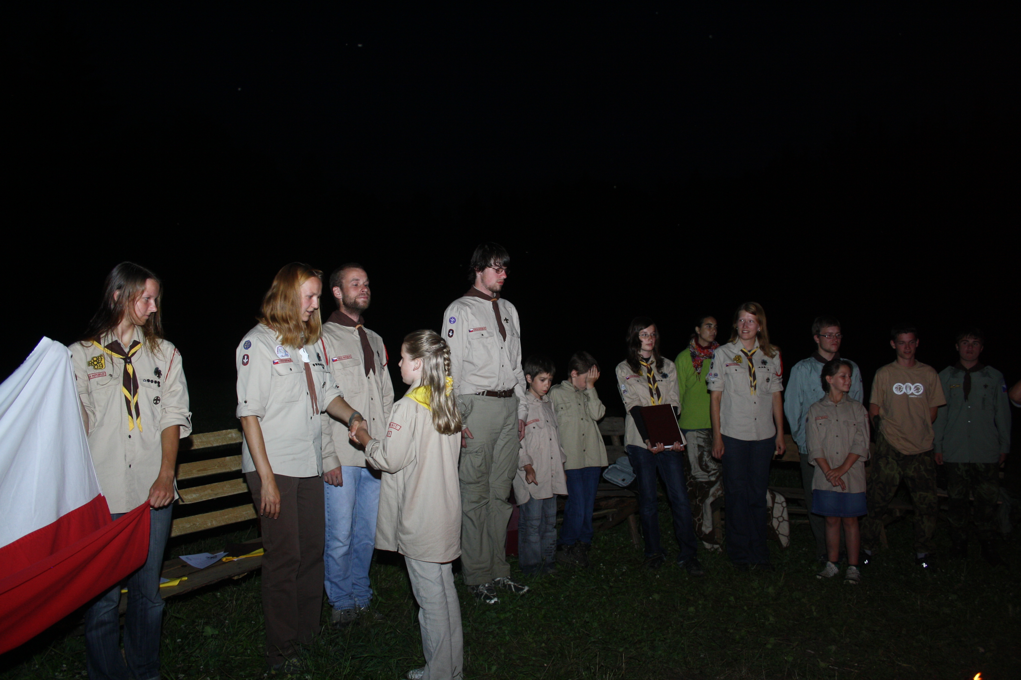 Scout promise parade.